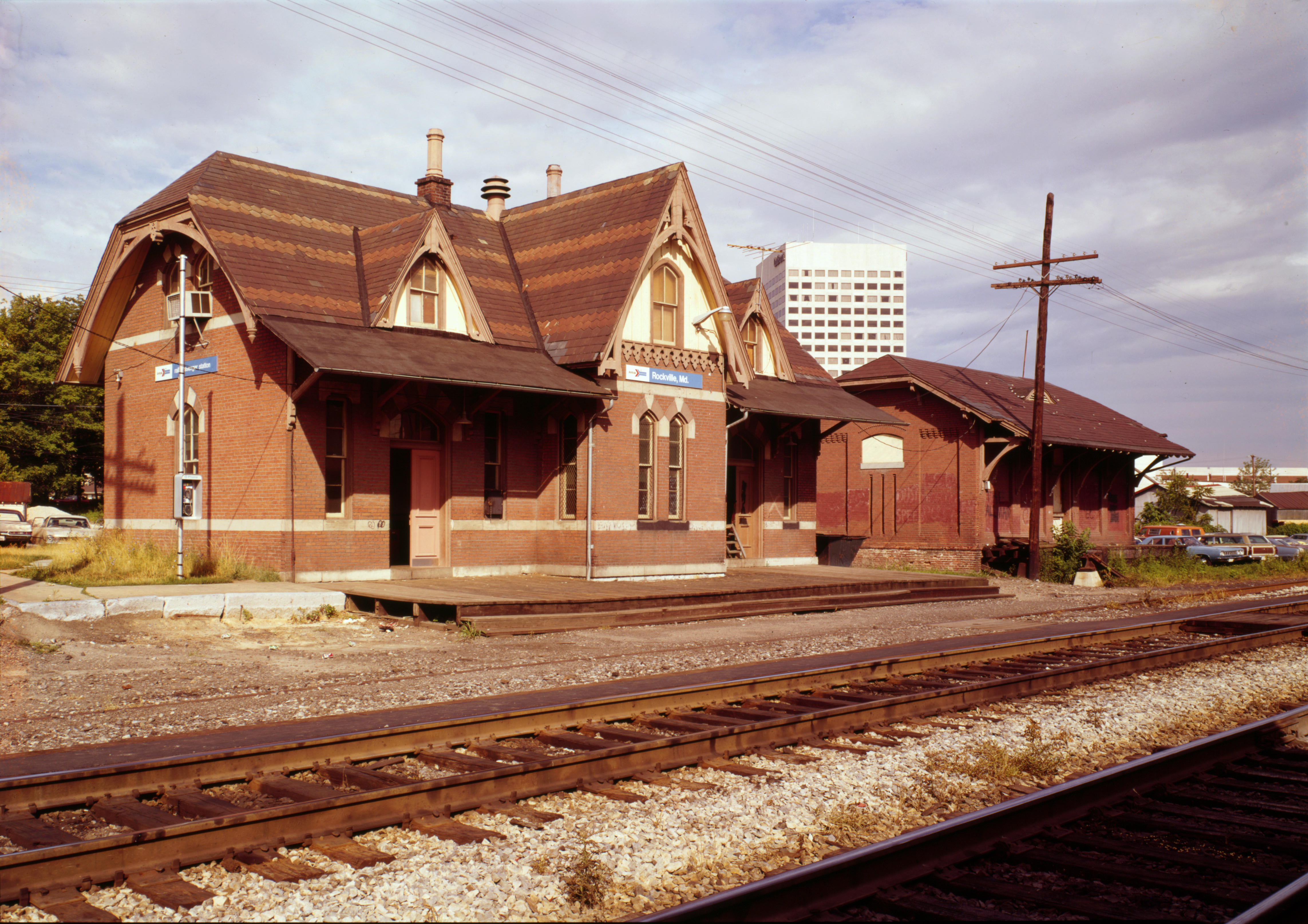 View of Rockville station and freight house in August 1978